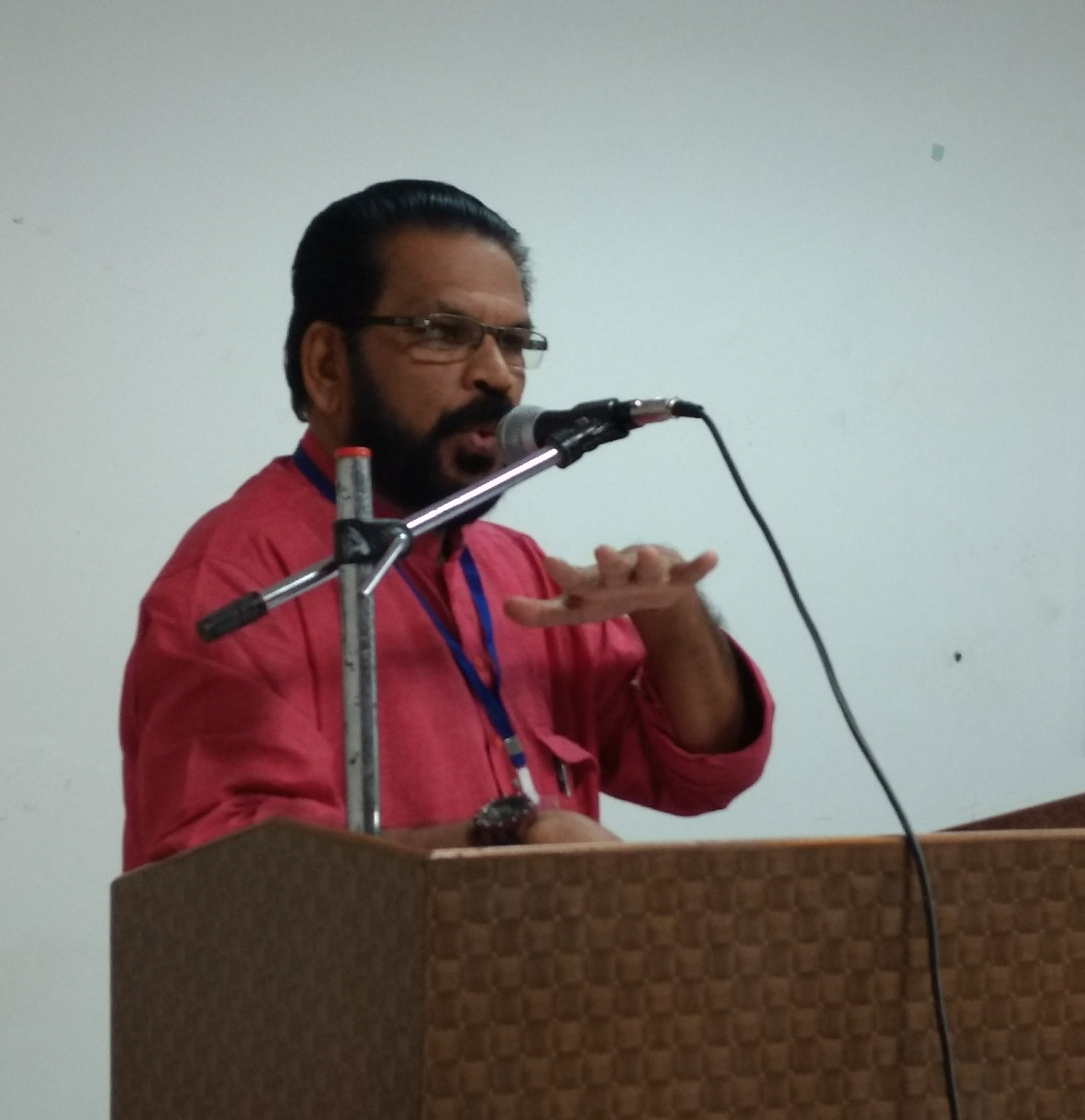 Karivelloor Murali, Mumbai, 2018